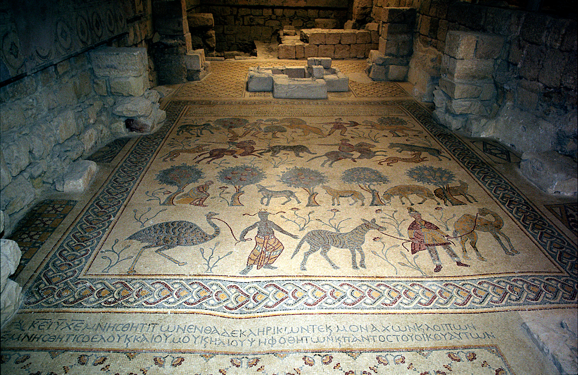 Mount Nebo, Jordan - mosaics